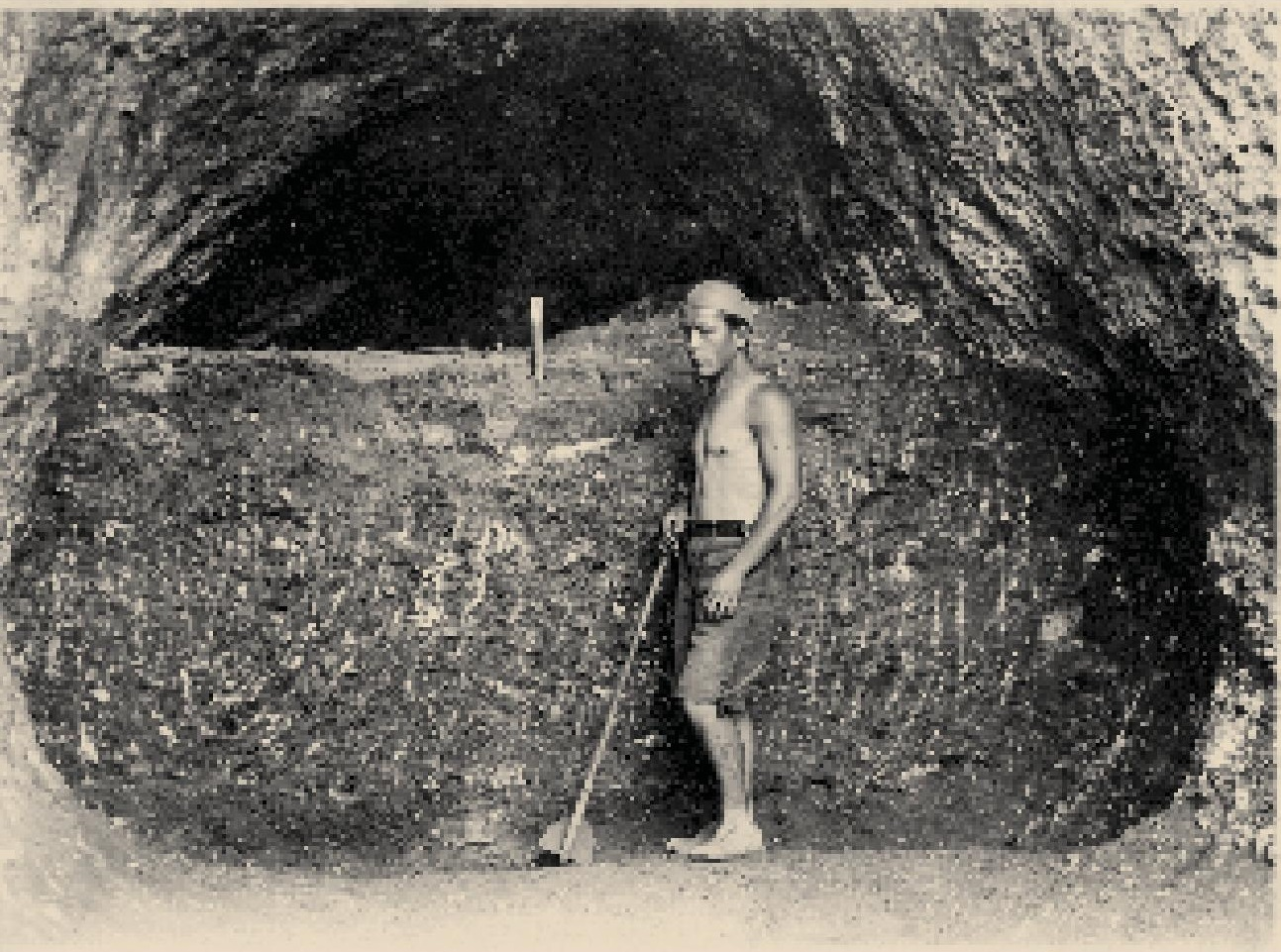 Work at Farkas-kő Cave in Hungary.